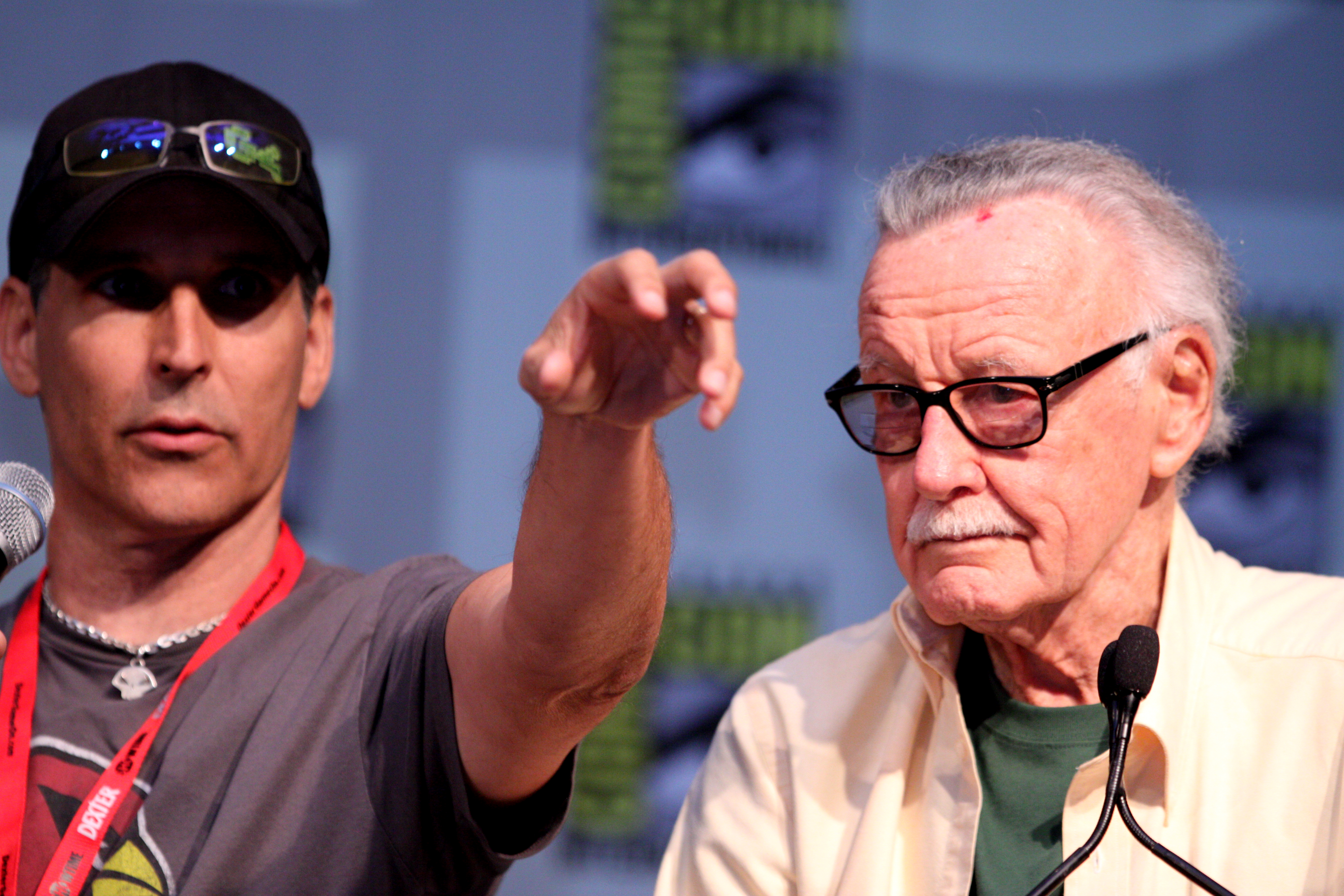 Todd McFarlane and Stan Lee at the 2010 San Diego Comic Con in San Diego, California.